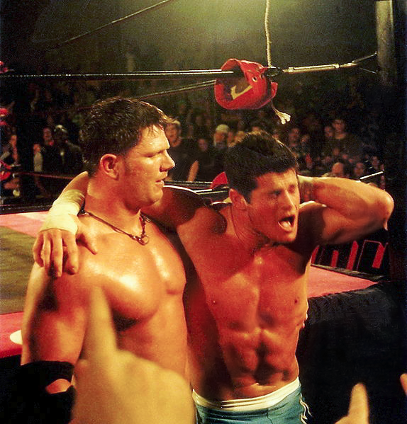 The Wrestlers AJ Styles & Matt Sydal